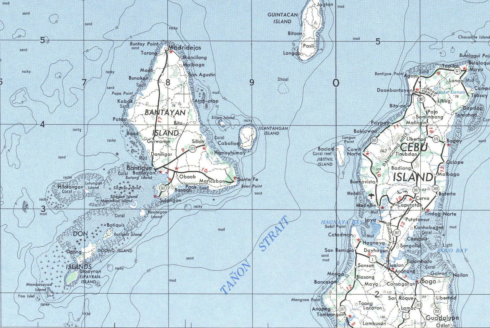 Bantayan Island group showing its minor islands and islets